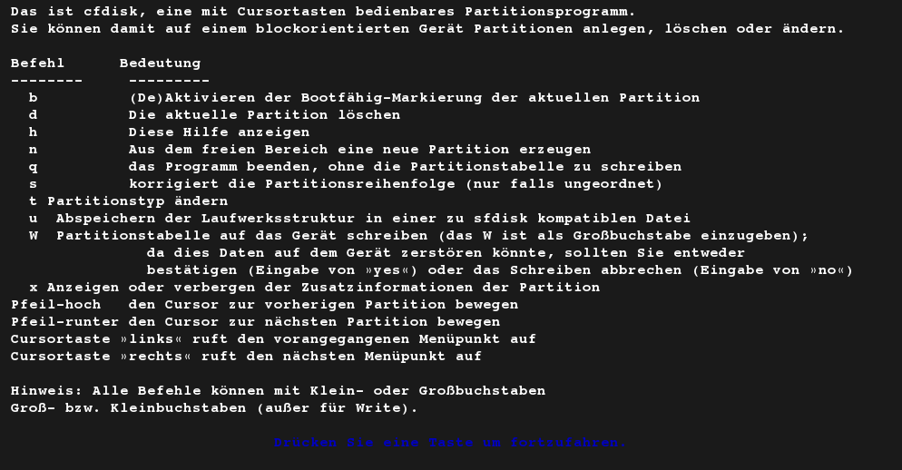 Screenshot of the german online help of the partition editor "cfdisk".